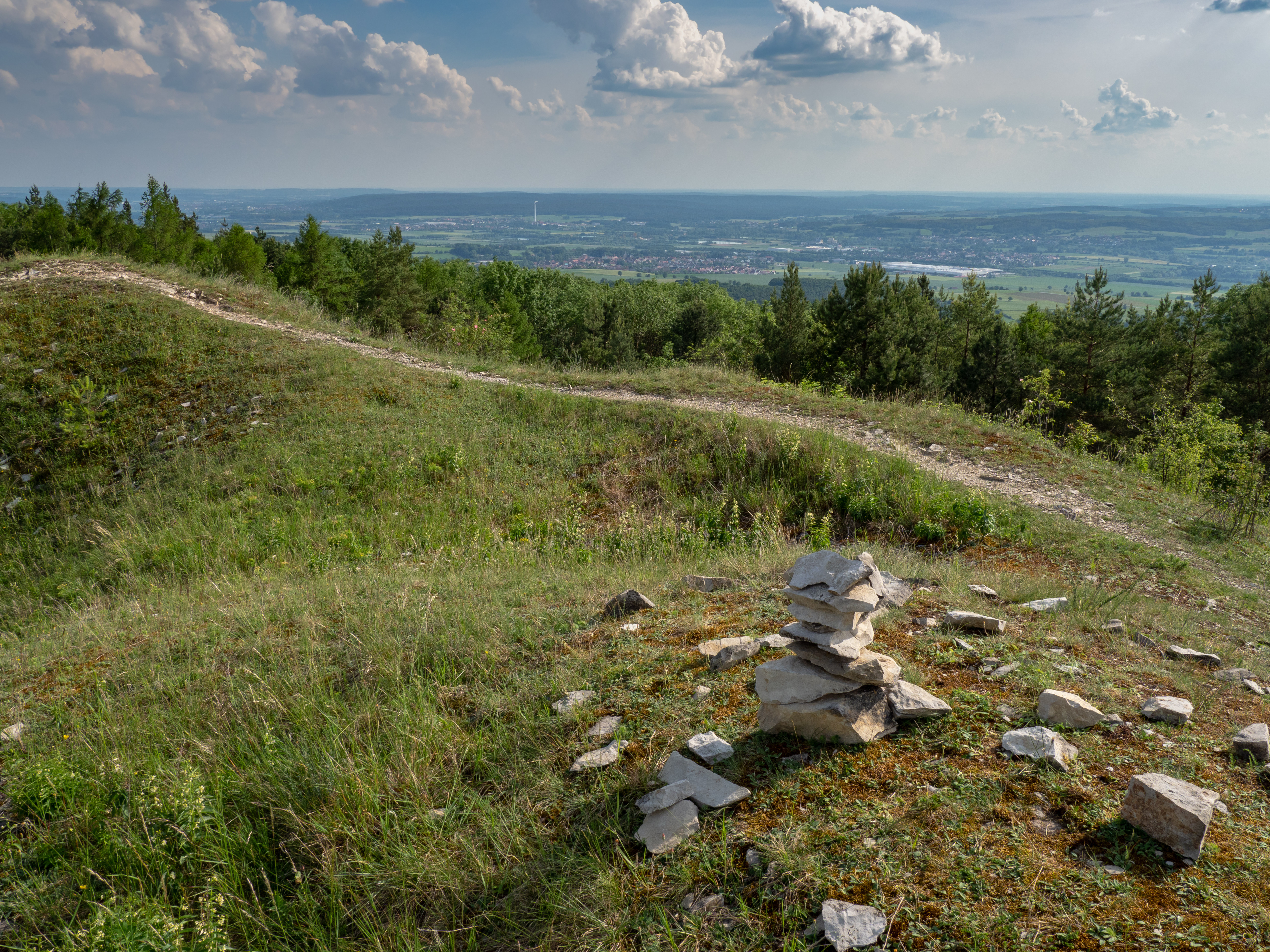 Slope of the Friesener Warte near Hirschaid in Upper Franconia